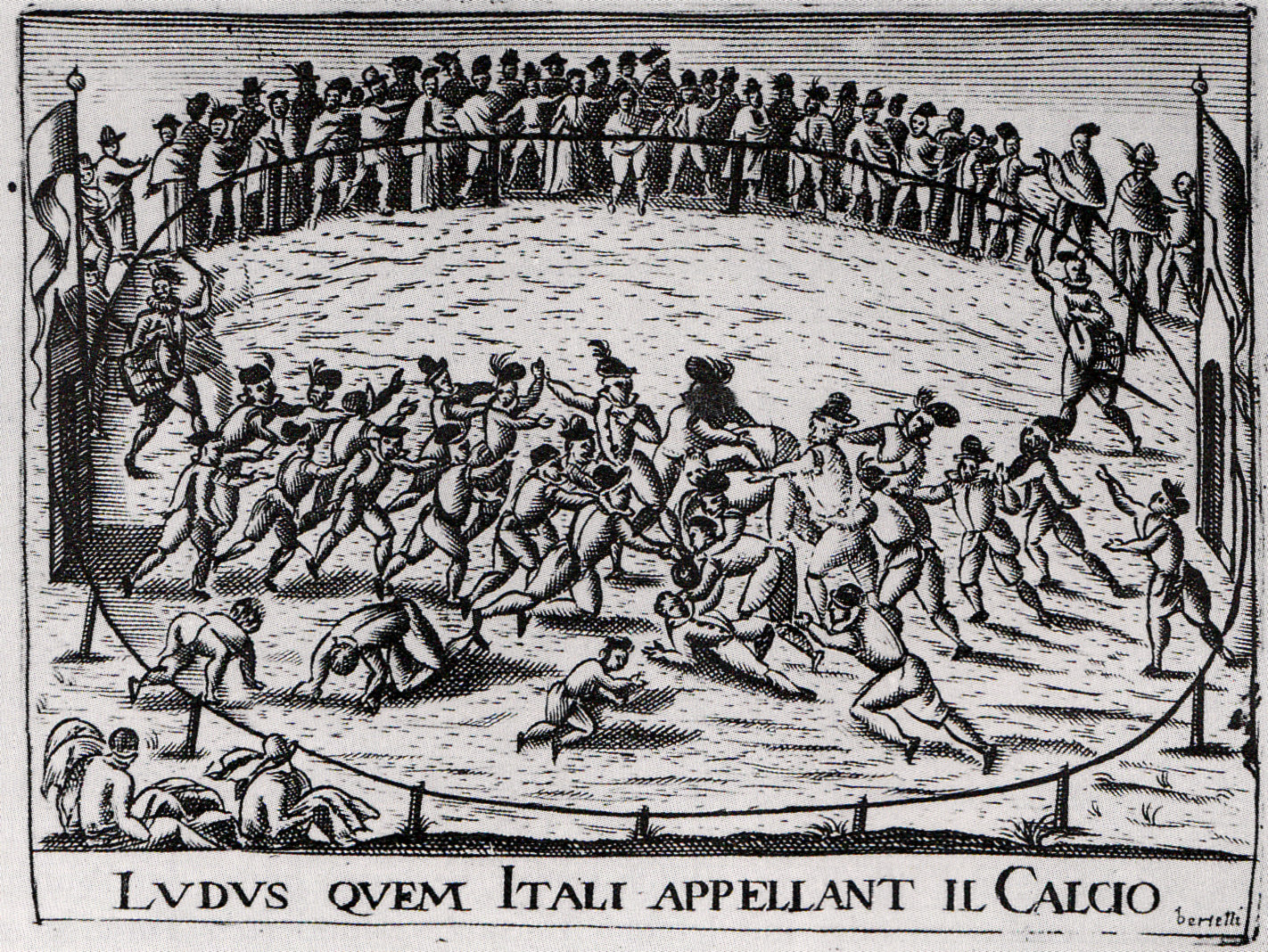 Early form of "football" in Florence, Italy